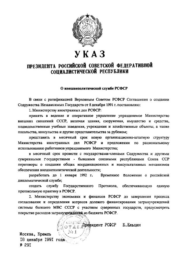 ukas of président Yeltsin number 291, 18th of december 1991